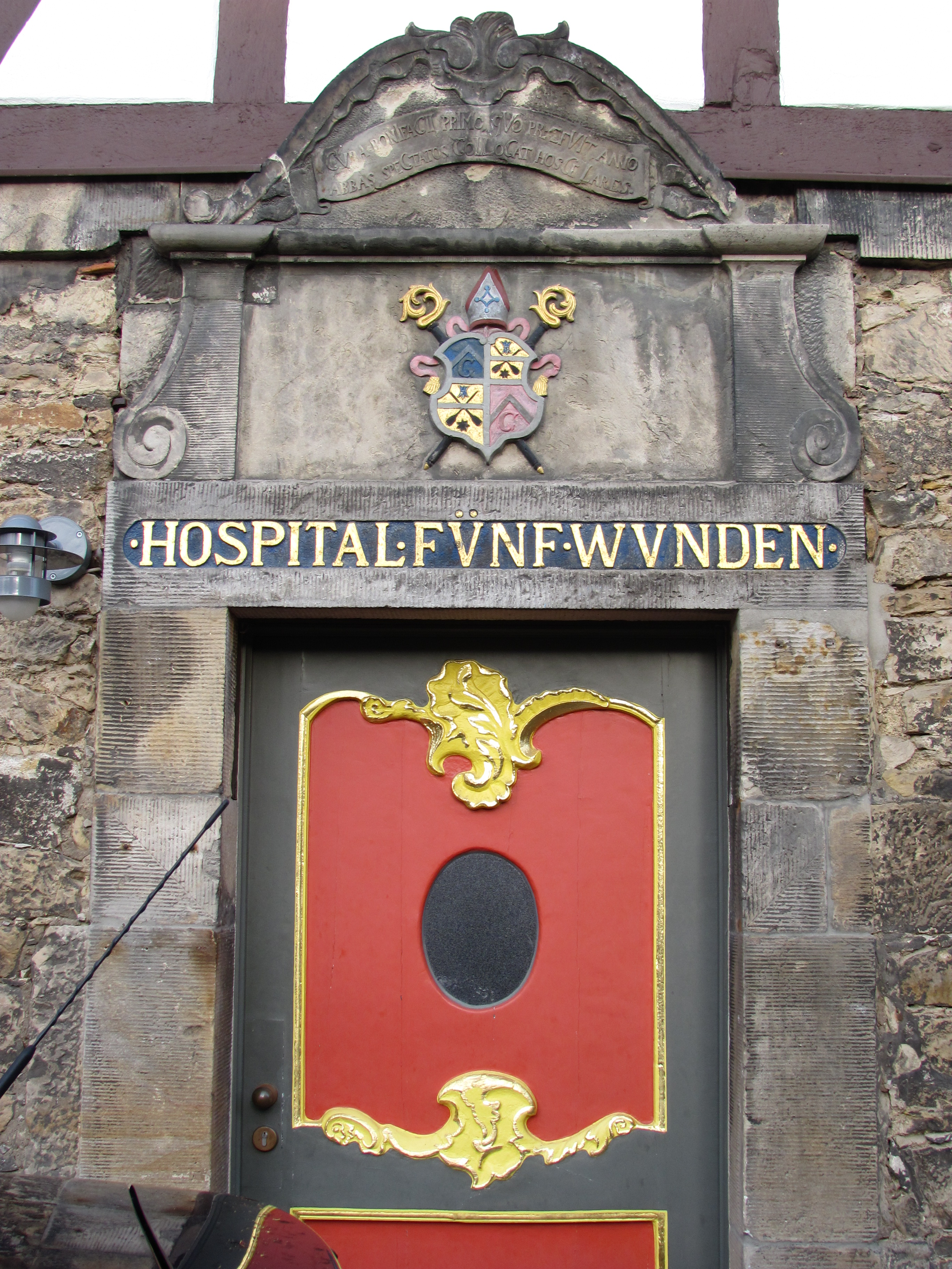 Entrance of the former Hospital of the Five Wounds, built 1770, Hildesheim, Germany